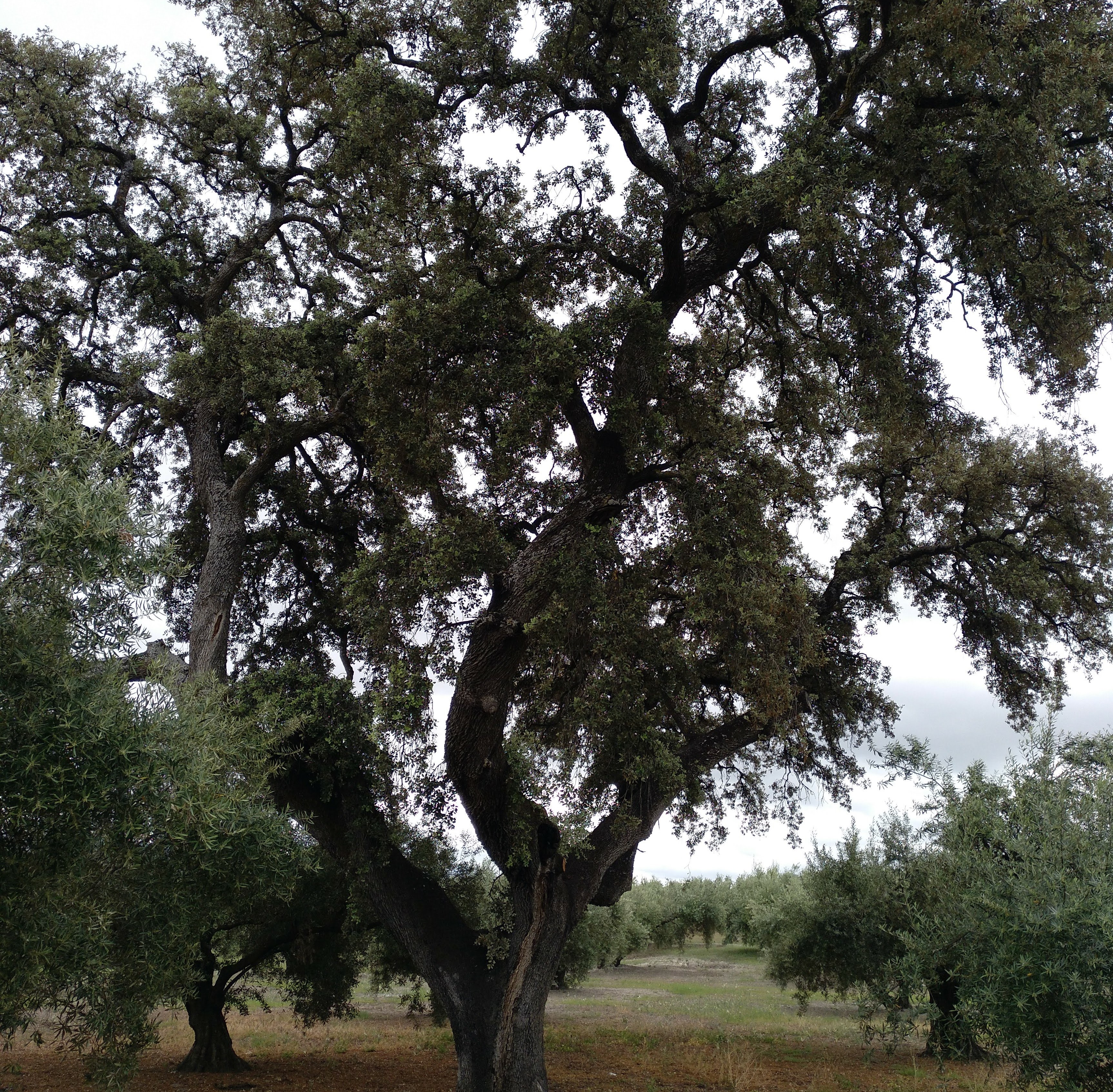 Quercus ilex in a Olea Europaea Orchard in Martos, Jaén (Spain)